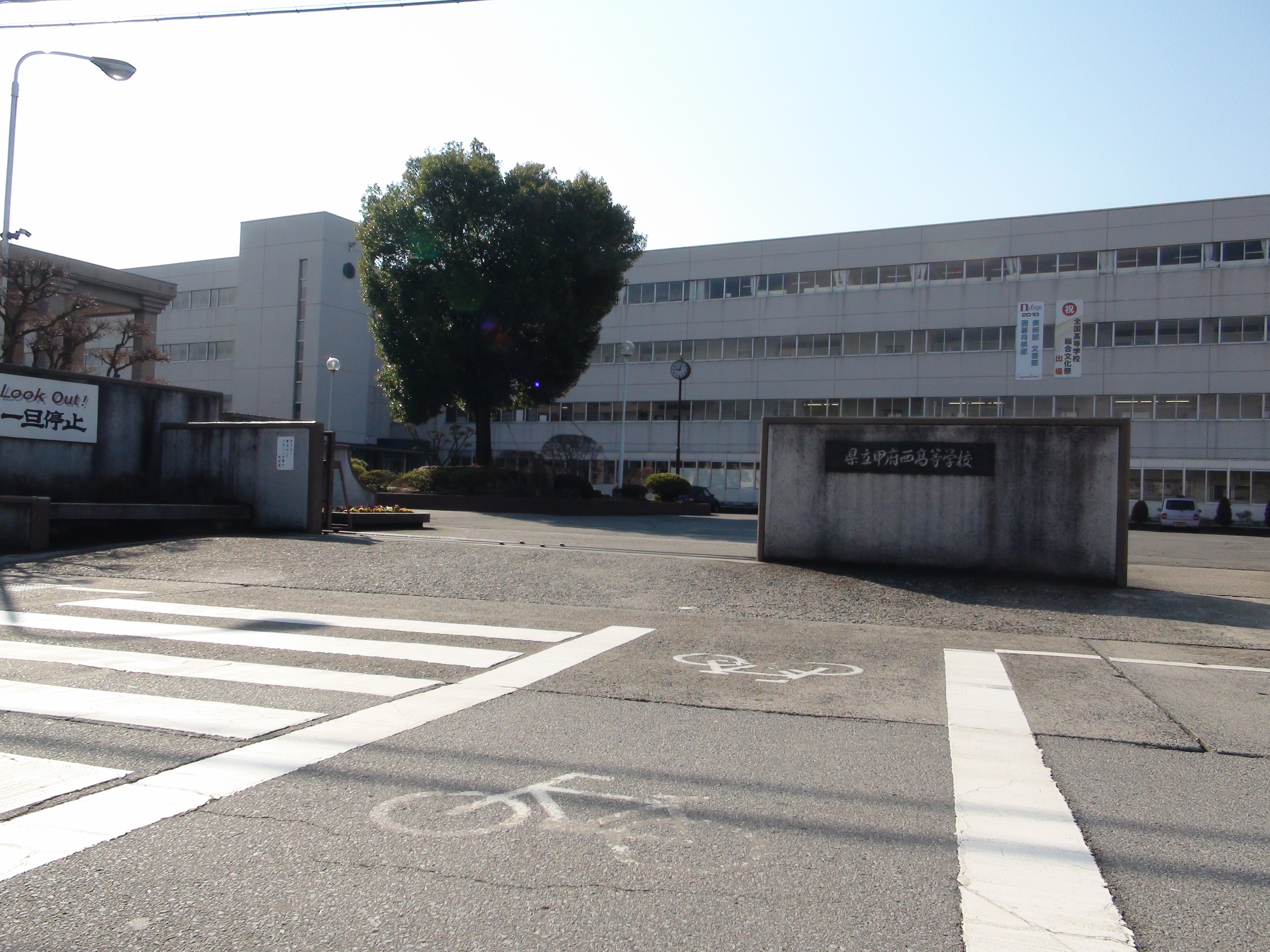 Kofu-Nishi High-School Yamanashi prefectural